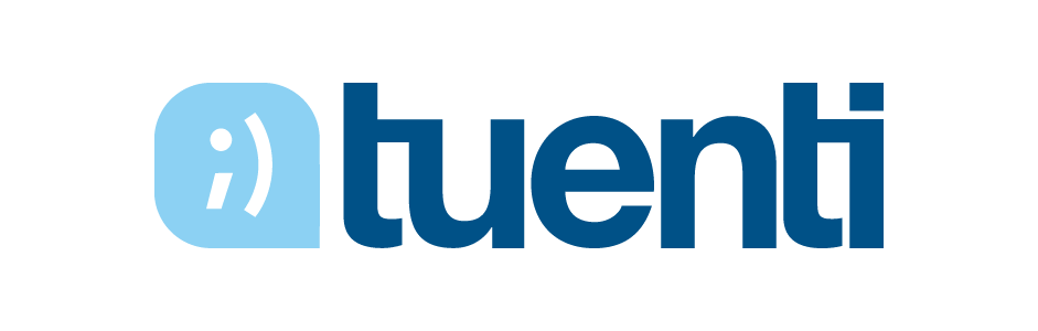 Tuenti logo (positive)